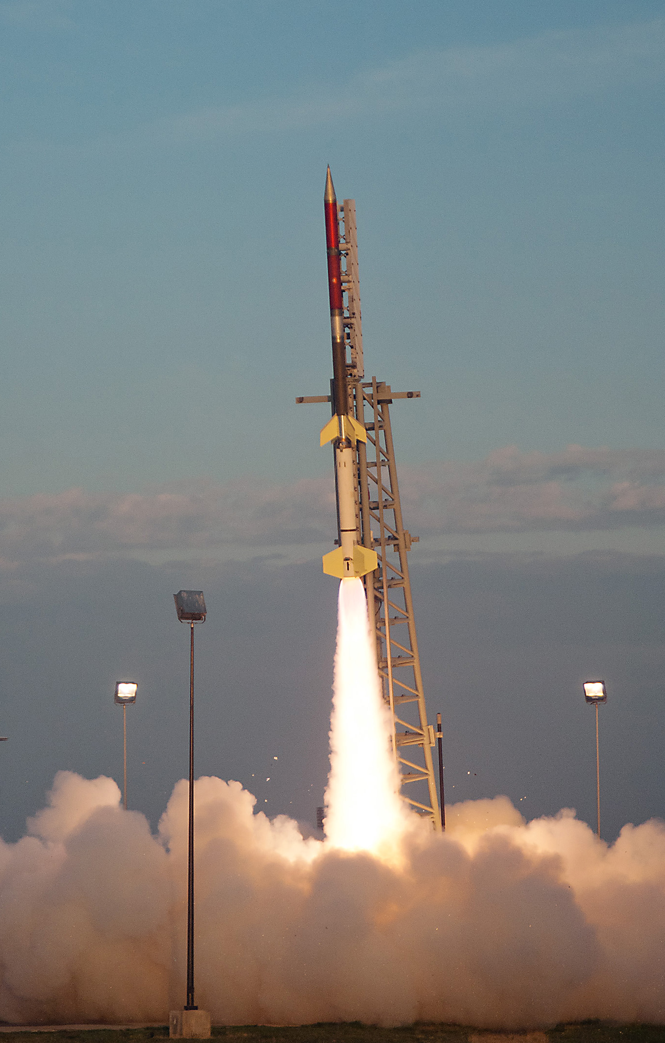 A NASA Terrier-Improved Orion suborbital rocket launches from Wallops Island, Virginia, carrying seventeen student experiments from the RockOn! 2011 program.